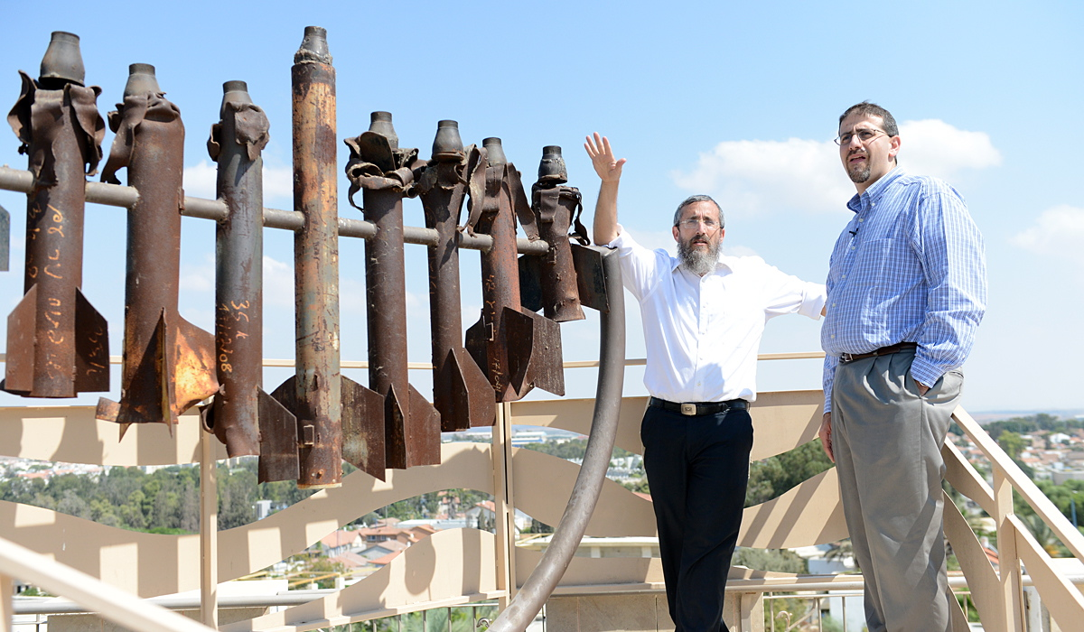 Ambassador Shapiro brought messages of solidarity and best wishes for the New Year in his visit to Sderot on September 13. In a city known for its resiliency in the face of rocket attacks from Gaza, Ambassador Shapiro commended the ingenuity and social conscience of its students in his visits to Sapir College and the Hesder Yeshiva. He also shared apples and honey (a New Year's tradition) with Mayor David Buskila in a fortified playground built by the JNF-USA, one of the many symbols of collaboration between the American people and Sderot. From the US Embassy to the Israeli people: shanah tova ve metuka le kol am yisrael!